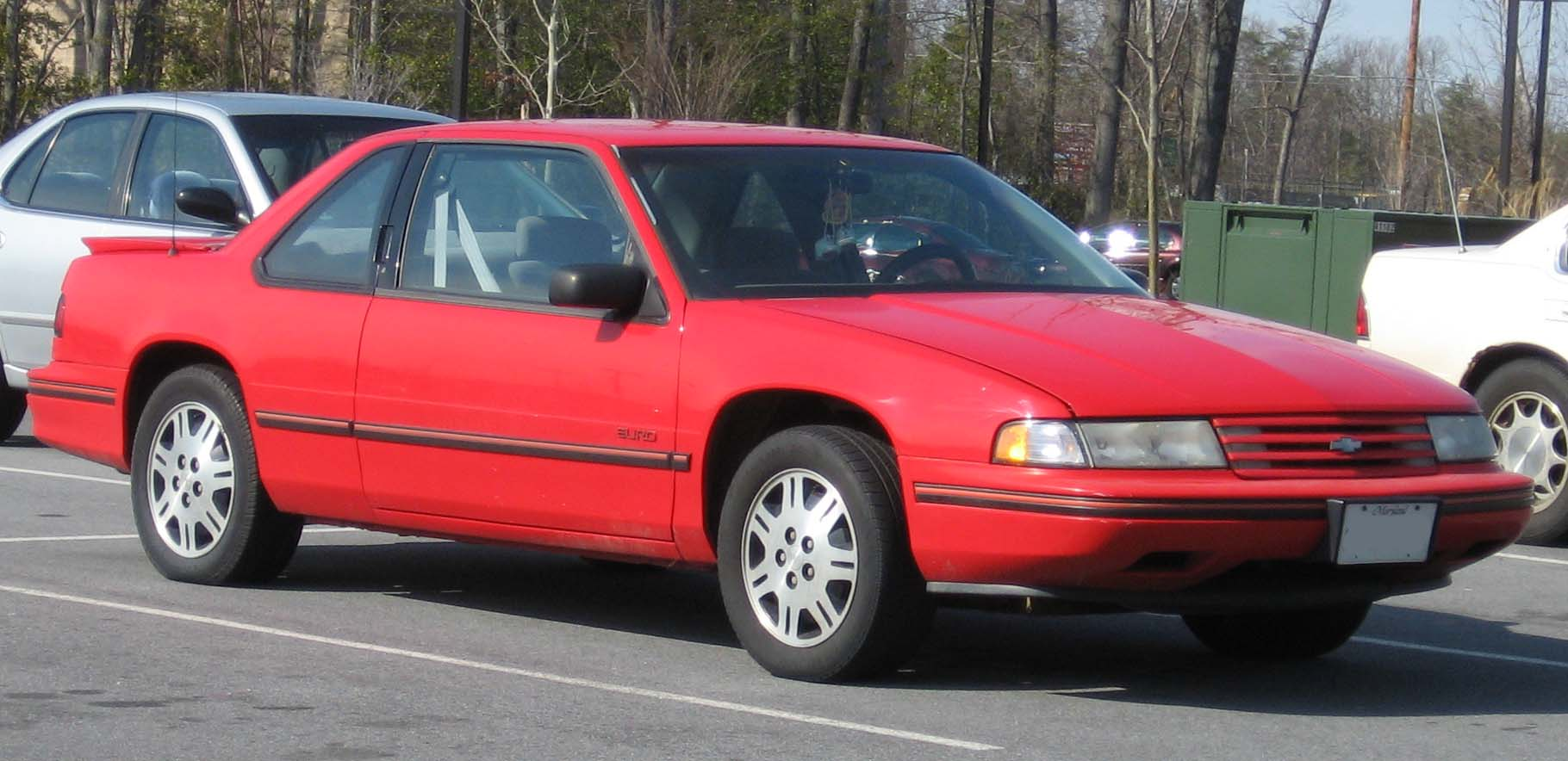 1990-1994 Chevrolet Lumina Euro Coupe in Torch Red photographed in USA.